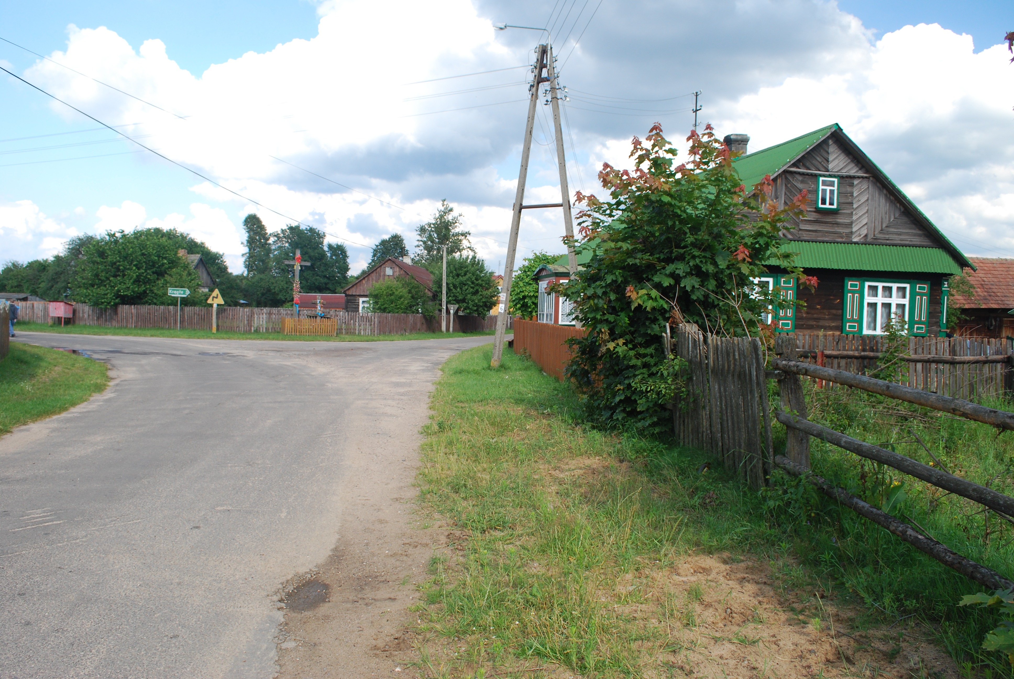 This photo from Podlaskie Voievodeship was taken during Polish Wikiexpedition 2009 set up by Wikimedia Polska Association. The making of this document was supported by Wikimedia Polska. Droga w Wilukach